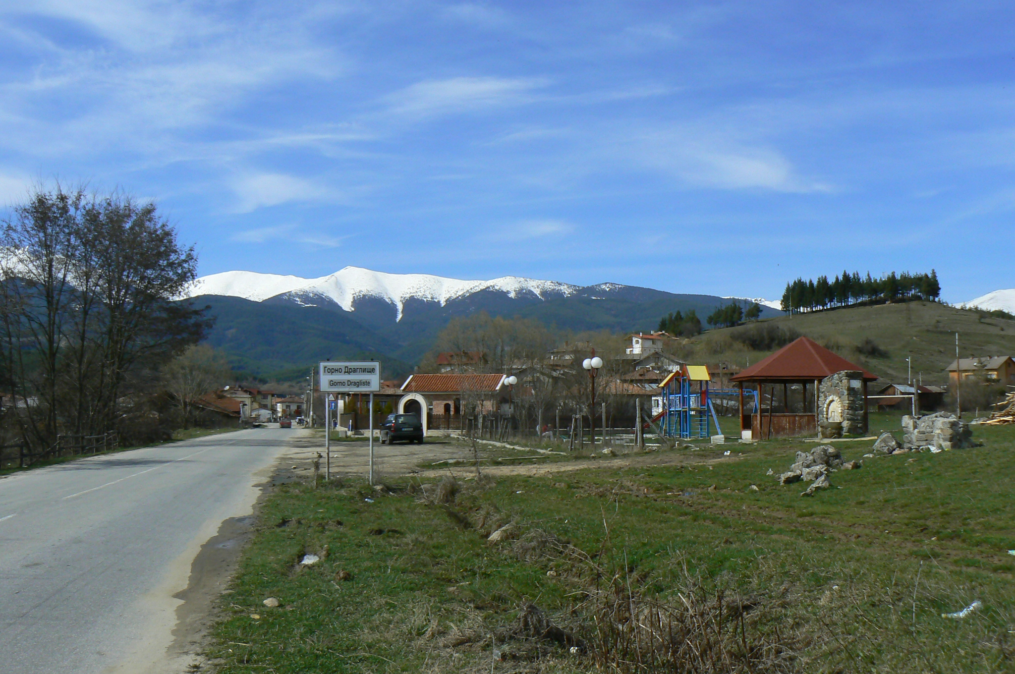 View at village Gorno Draglishte, Bulgaria